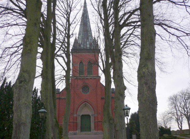 Östra Grevie church Source: taken by user dec 26th 2004